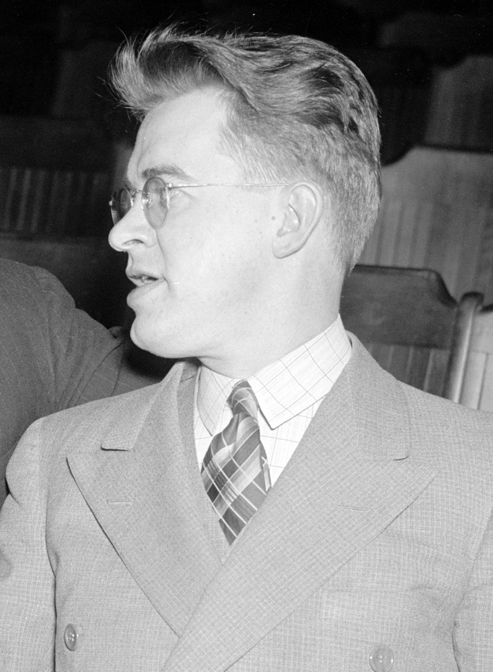 Thomas O'Malley, US Representative from Wisconsin